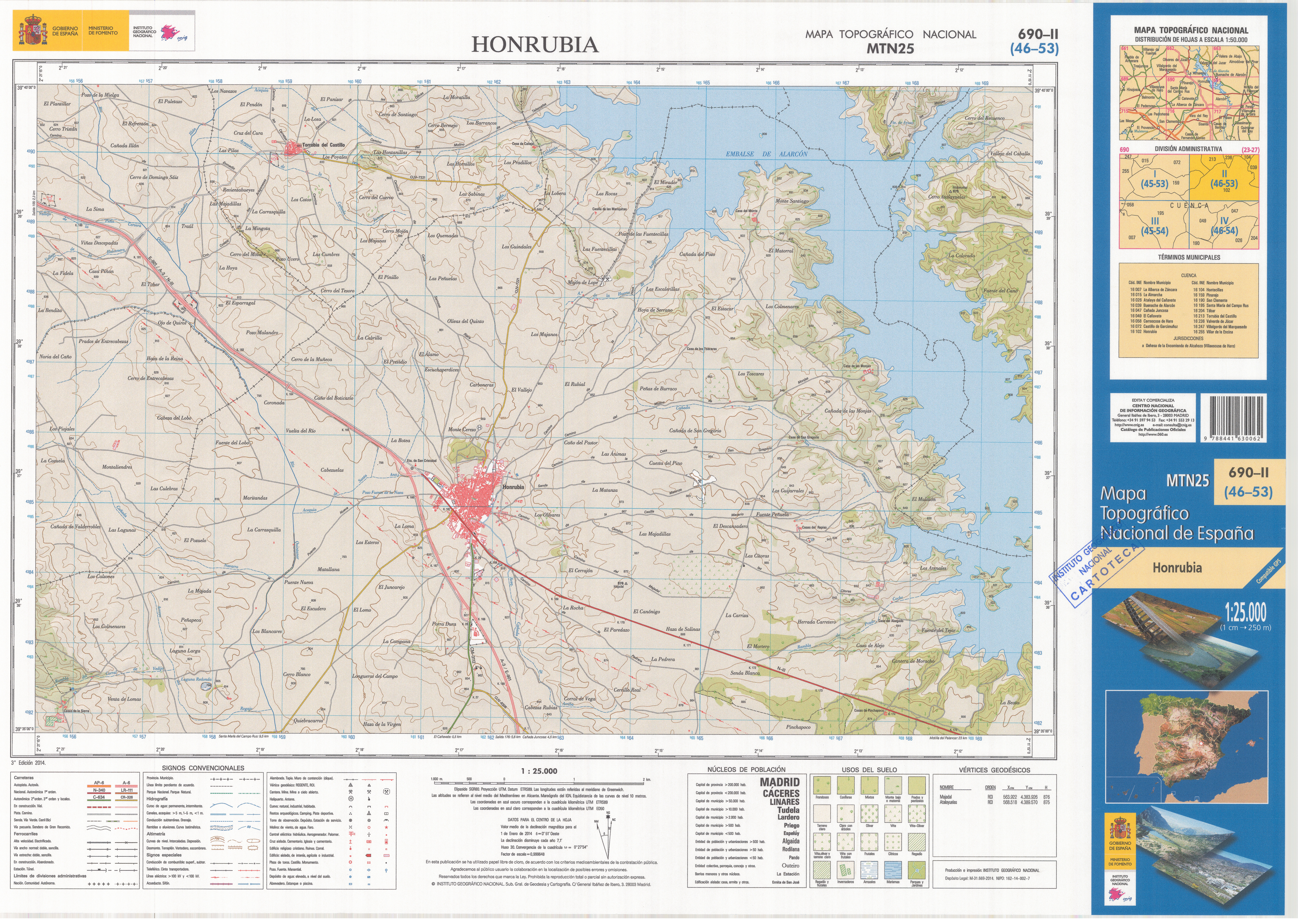 Fragment 0690c2 of the National Topographic Map of Spain in 2014 at a scale of 1:25000 printed and scanned with a resolution of 250 ppi. It shows Honrubia.